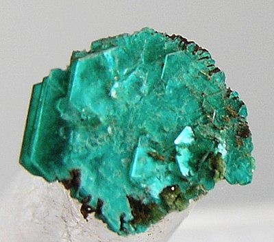 Chalcophyllite Locality: Ting Tang Mine, West Clifford United Mines, Carharrack, Gwennap area, Camborne - Redruth - St Day District, Cornwall, England, UK (Locality at ) Size: 0.6 x 0.6 x 0.2 cm. A striking thumbnail plate of scintillating, electric-aquamarine chalcophyllite from the Ting Tang Mine of Cornwall. This is classic, old-time material from this renowned district and mine. Chalcophyllite is an uncommon copper, aluminum sulfate, arsenate and this is a huge crystal. Ex. George Elling Collection.